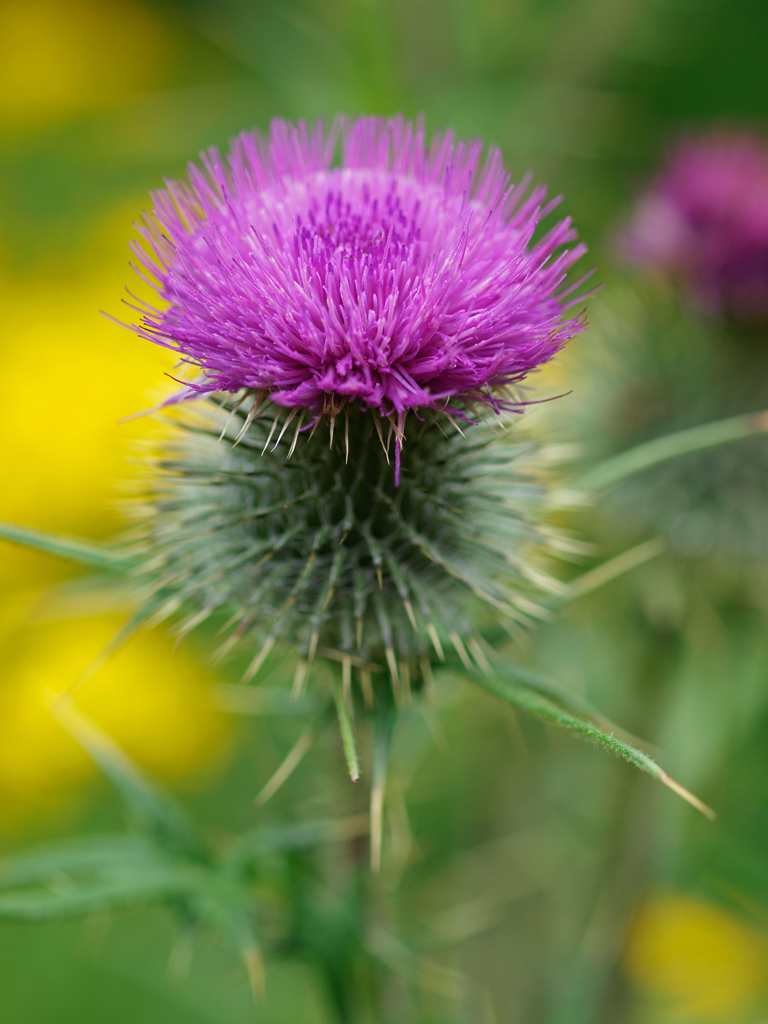 Cirsium vulgare, Spear Thistle 10-08-08